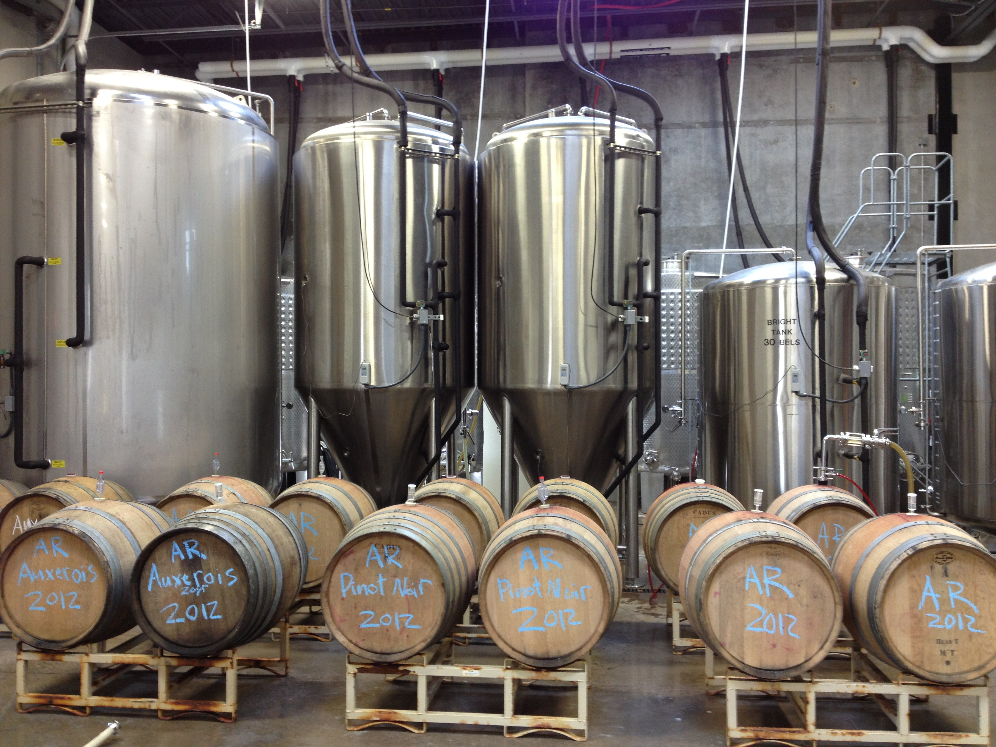 [Fermentation tanks and barrels used by 2 Towns Ciderhouse for crafting hard cider. Taken at production facility in Corvallis, OR on January 30, 2013] Photo taken by [Scott Bugni]. Released by [Scott Bugni] ("Sbugni") via CreativeComons Attribution-Share-Alike 3.0. Template:Keep local